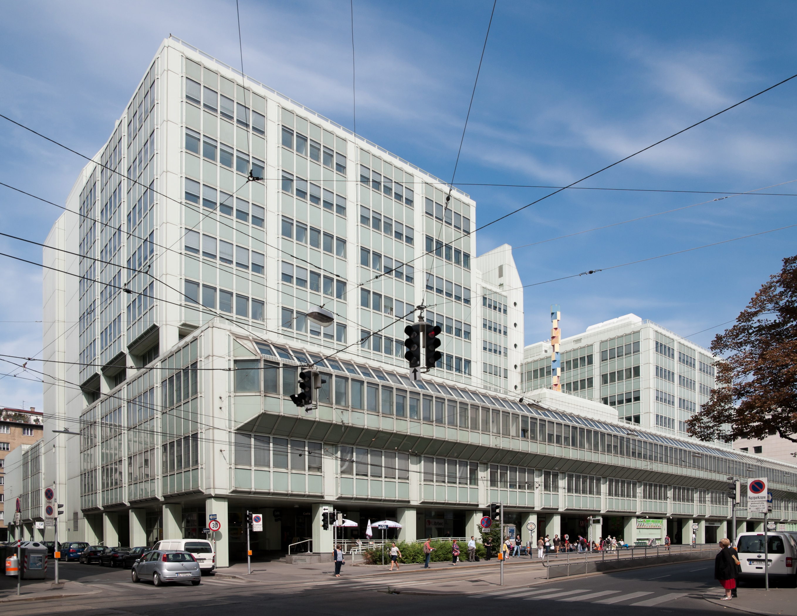 The so called Freihaus, part of Vienna University of Technology.